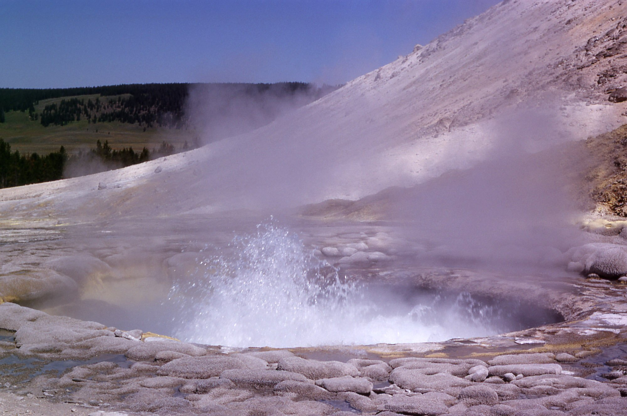 Sulphur Springs (Crater Hill Geyser) near Mud Volcano, Yellowstone National Park, Wyoming, 1963